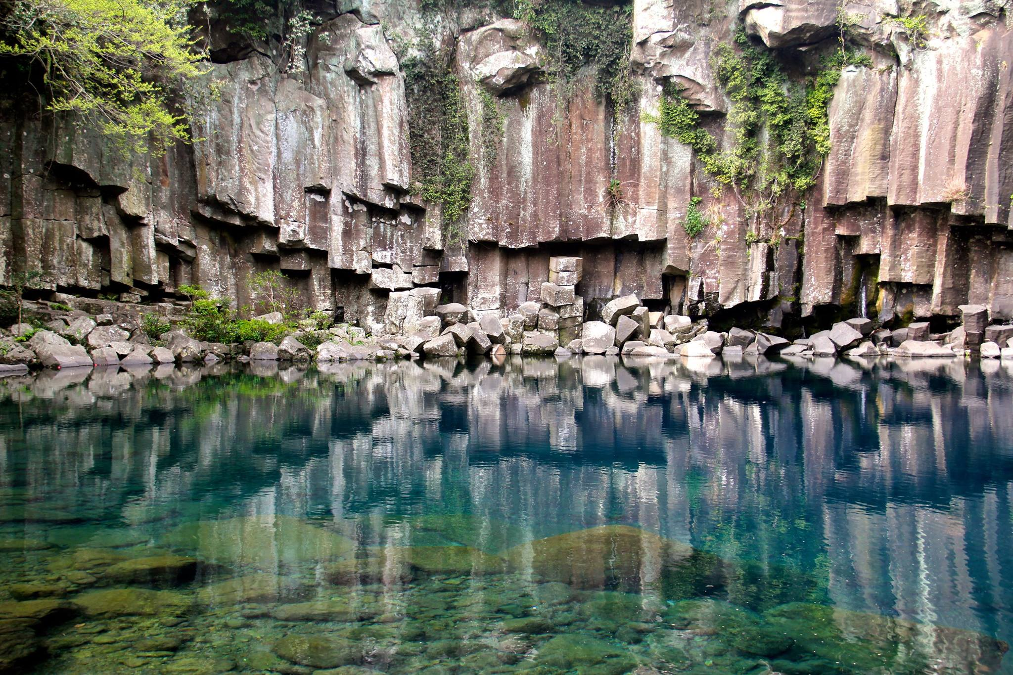 Crystal clear blue waters in the first part of the Chunjeyeon Waterfall- known as the "Pond of Emperor of Heaven".